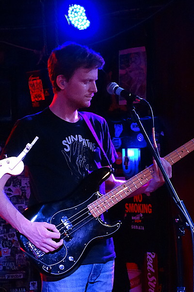 Connor Davison of Bad Bad Hats performing at The Saint in Asbury Park, NJ, May 15, 2019. Photo by LH Collins.